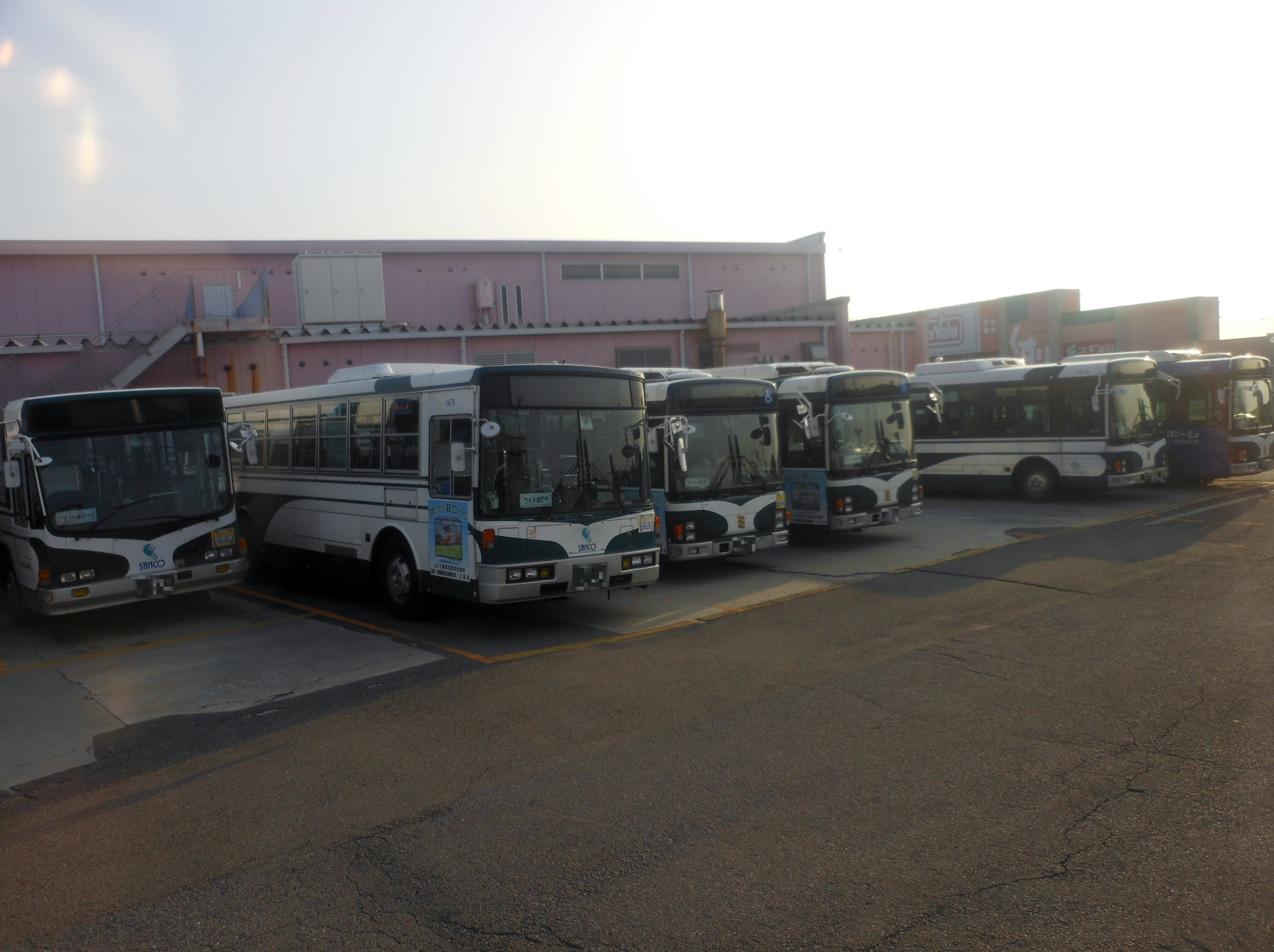 This is the bus stop called "Sanco Suzuka" in Suzuka, Mie, Japan.